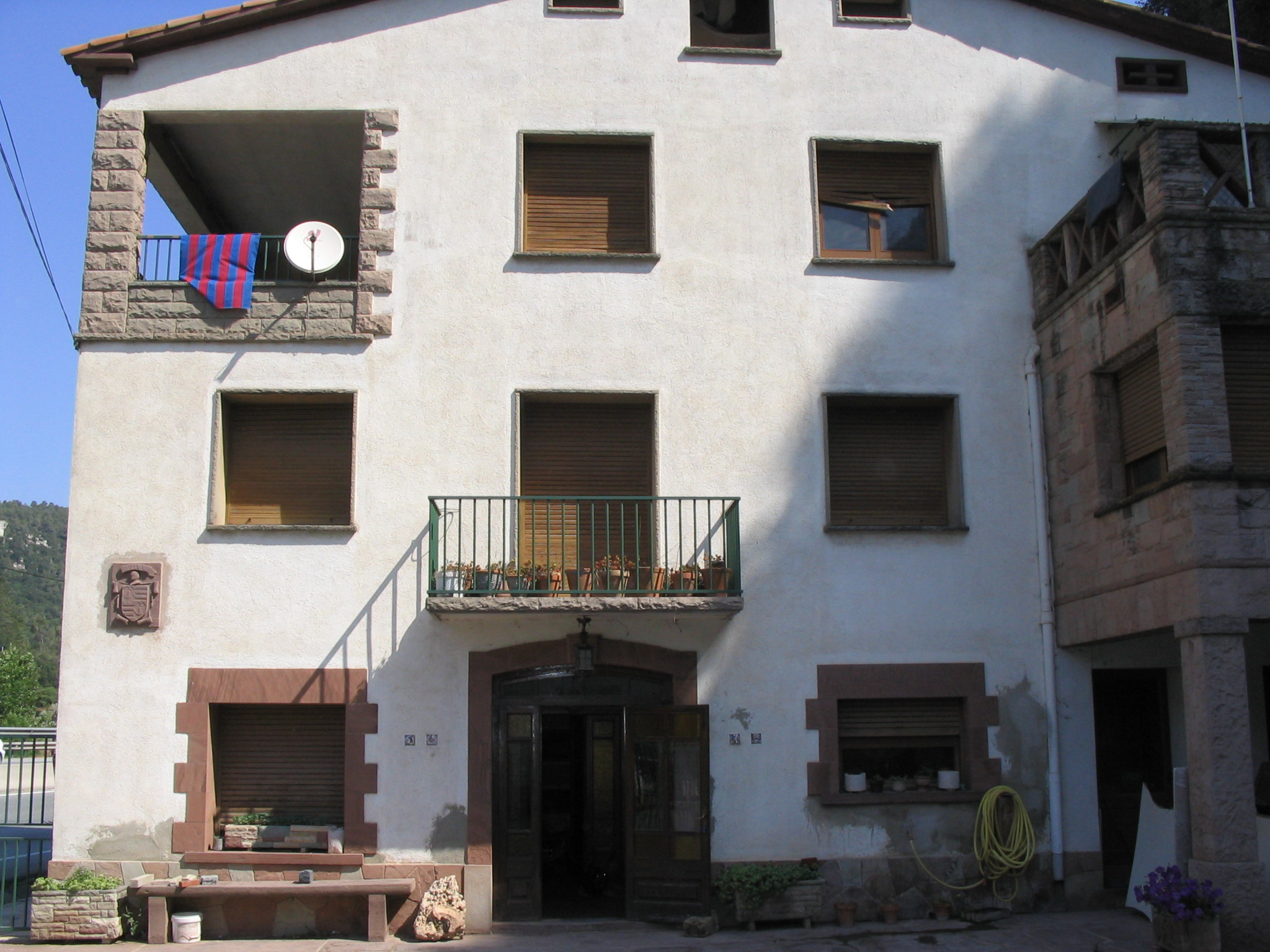 La Casa Nova de can Pere Torn-XIX century XIX House (1888) (Tagamanent, Vallès Oriental, Catalonia, Spain).